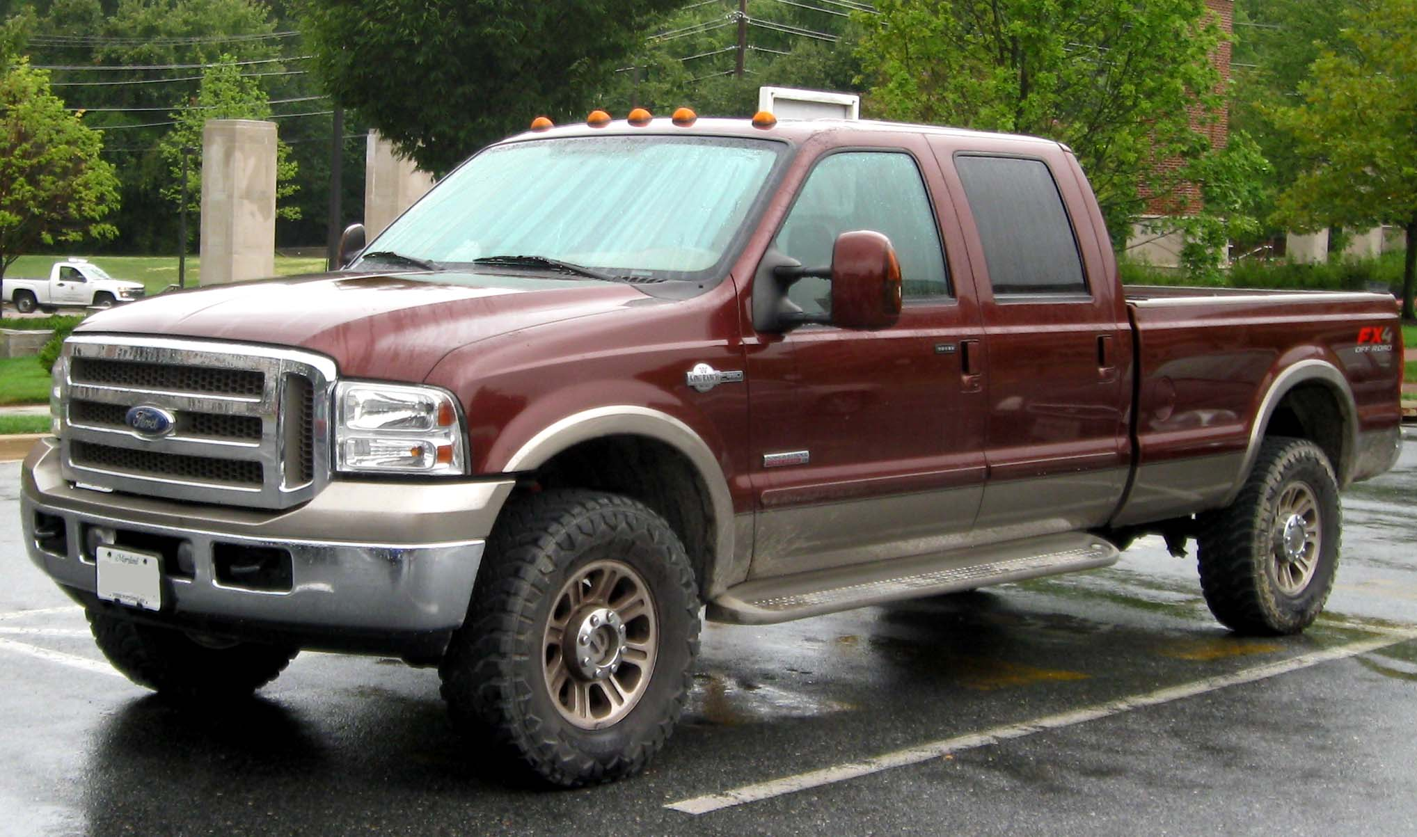 Ford F-350 photographed in College Park, Maryland, USA.